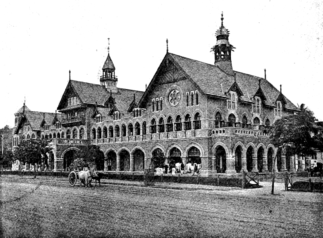 Image taken from: Title: "Bombay and Western India. A series of stray papers" Author: DOUGLAS, James - of Bombay Shelfmark: "British Library HMNTS 010056.h.10.", "British Library OC ORW.1986.a.2990" Volume: 02 Page: 162 Place of Publishing: London Date of Publishing: 1893 Publisher: Sampson Low & Co. Issuance: monographic Identifier: 000973604 Note: The colours, contrast and appearance of these illustrations are unlikely to be true to life. They are derived from scanned images that have been enhanced for machine interpretation and have been altered from their originals. If you wish to purchase a high quality copy of the page that this image is drawn from, please order it here. Please note that you will need to enter details from the above list - such as the shelfmark, the page, the book's volume and so on - when filling out your order. Explore: Find this item in the British Library catalogue, 'Explore'. Open the page in the British Library's itemViewer (page: 162) Download the PDF for this book Click here to see all the illustrations in this book and click here to browse other illustrations published in books in the same year. Please click on the tags shown on the right-hand side for other ways to browse the illustrations.